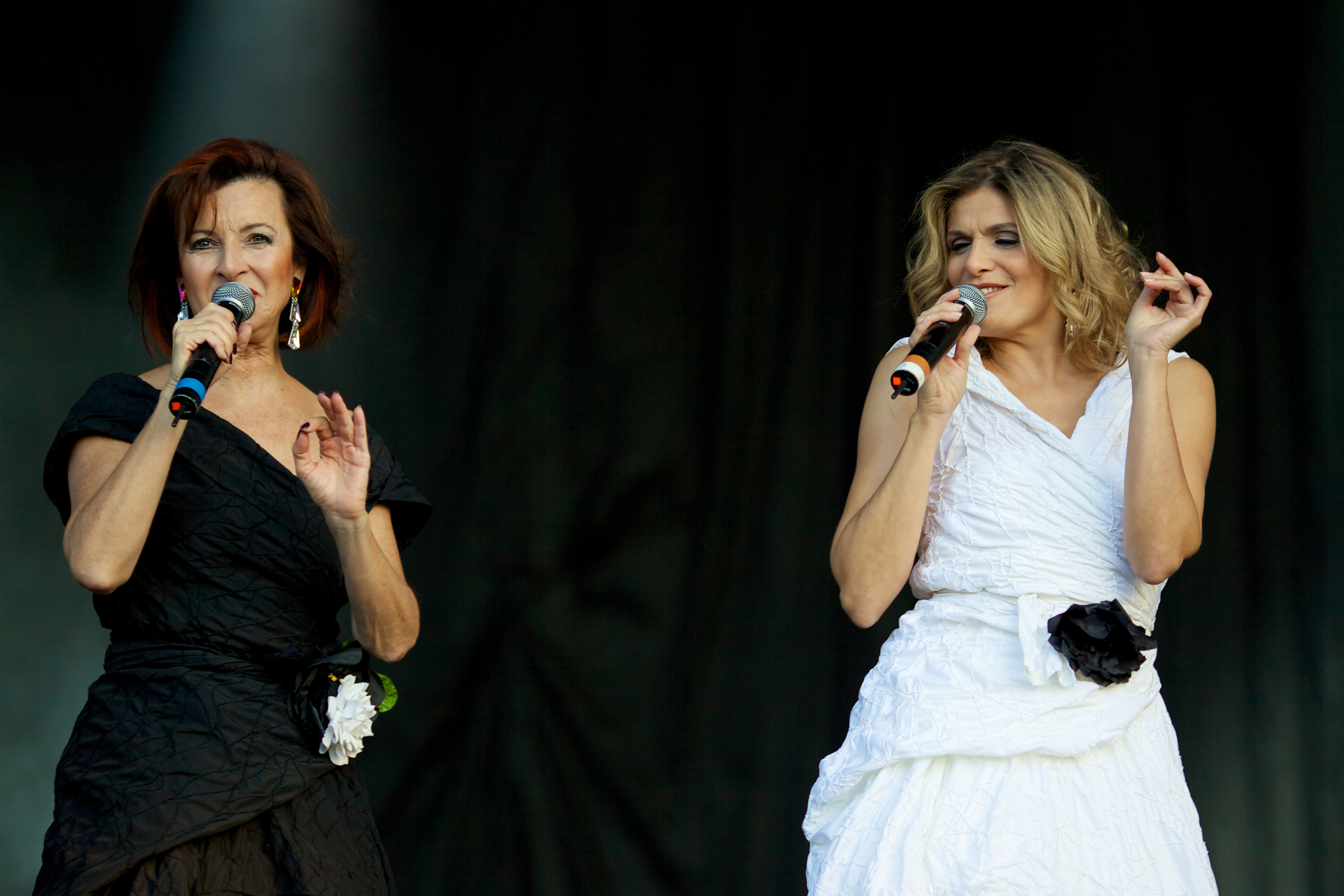 Baccara in Skien, Norway